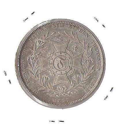 Reverse of historical taler of Bayern 1827. Original image was taken from image from german Wikipedia, which was scan and uploaded there